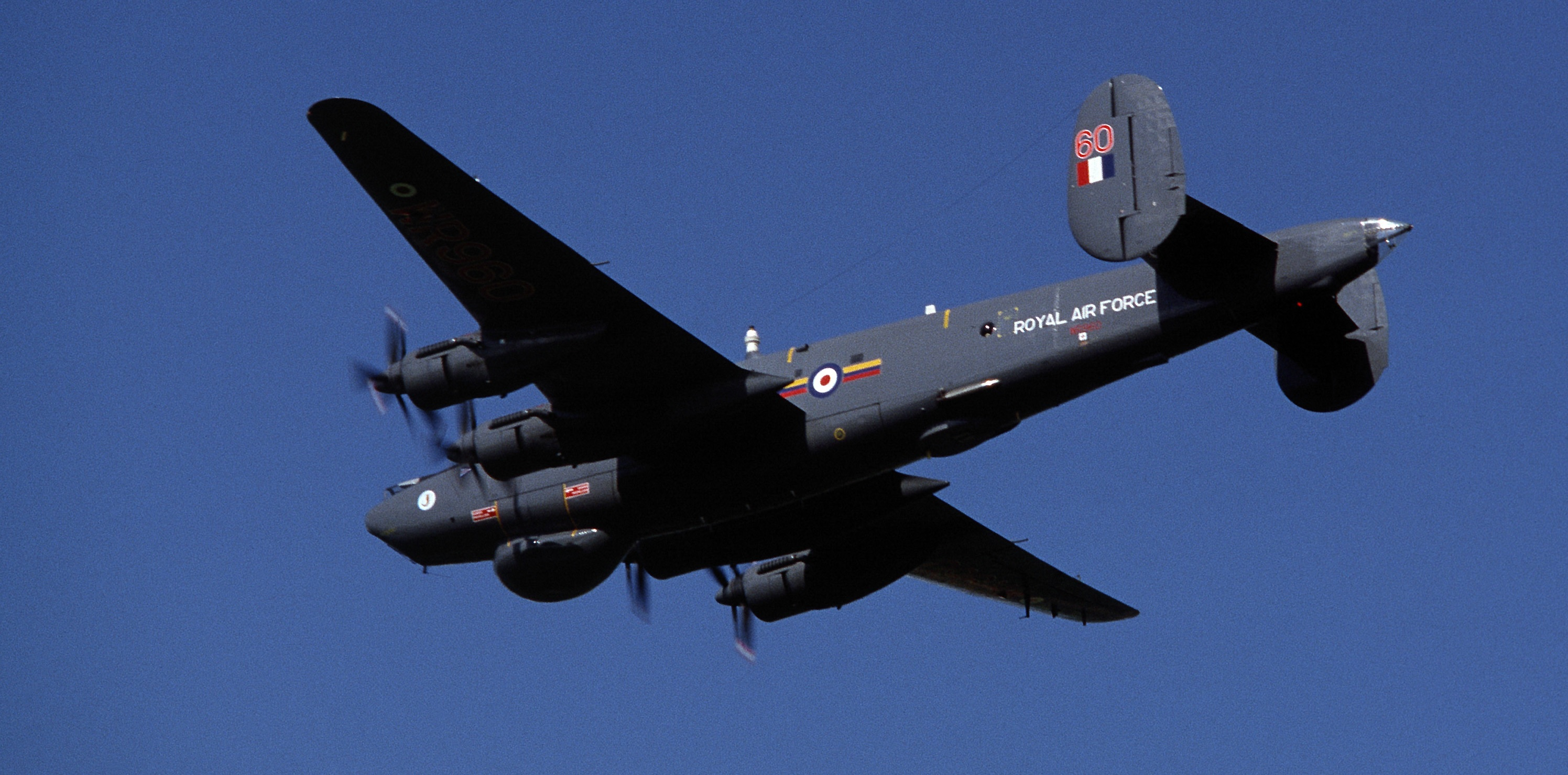 A British Royal Air Force Avro Shackleton AEW2 aircraft (s/n WR960) of No. 8 Squadron, RAF, on 26 June 1982. The Shackleton took part in exercise "Coronet Cactus" at RAF Leeming, North Yorkshire (UK). 8 Squadron was based at RAF Lossiemouth, Scotland (UK), from 1973 to 1991.